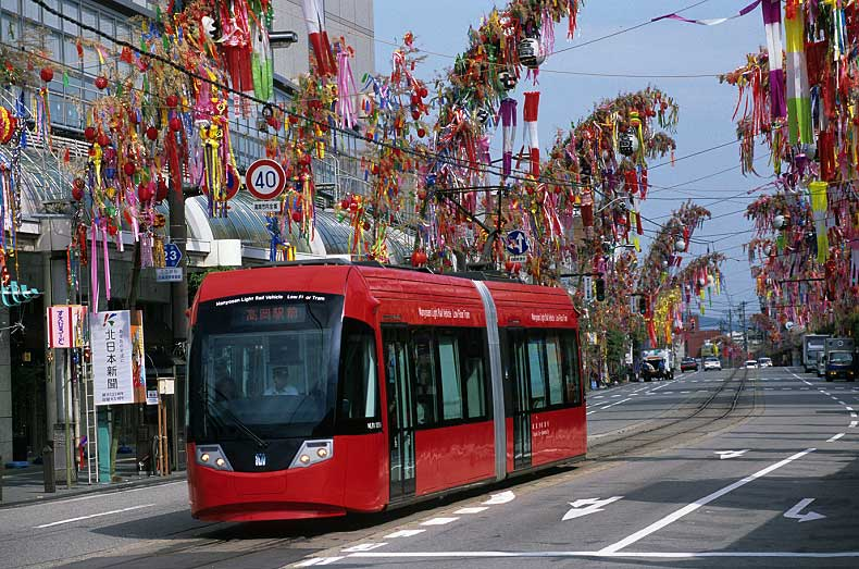 The MLRV1000, one of the electric trains used on the Manyōsen lines in Takaoka, Toyama Prefecture, Japan.